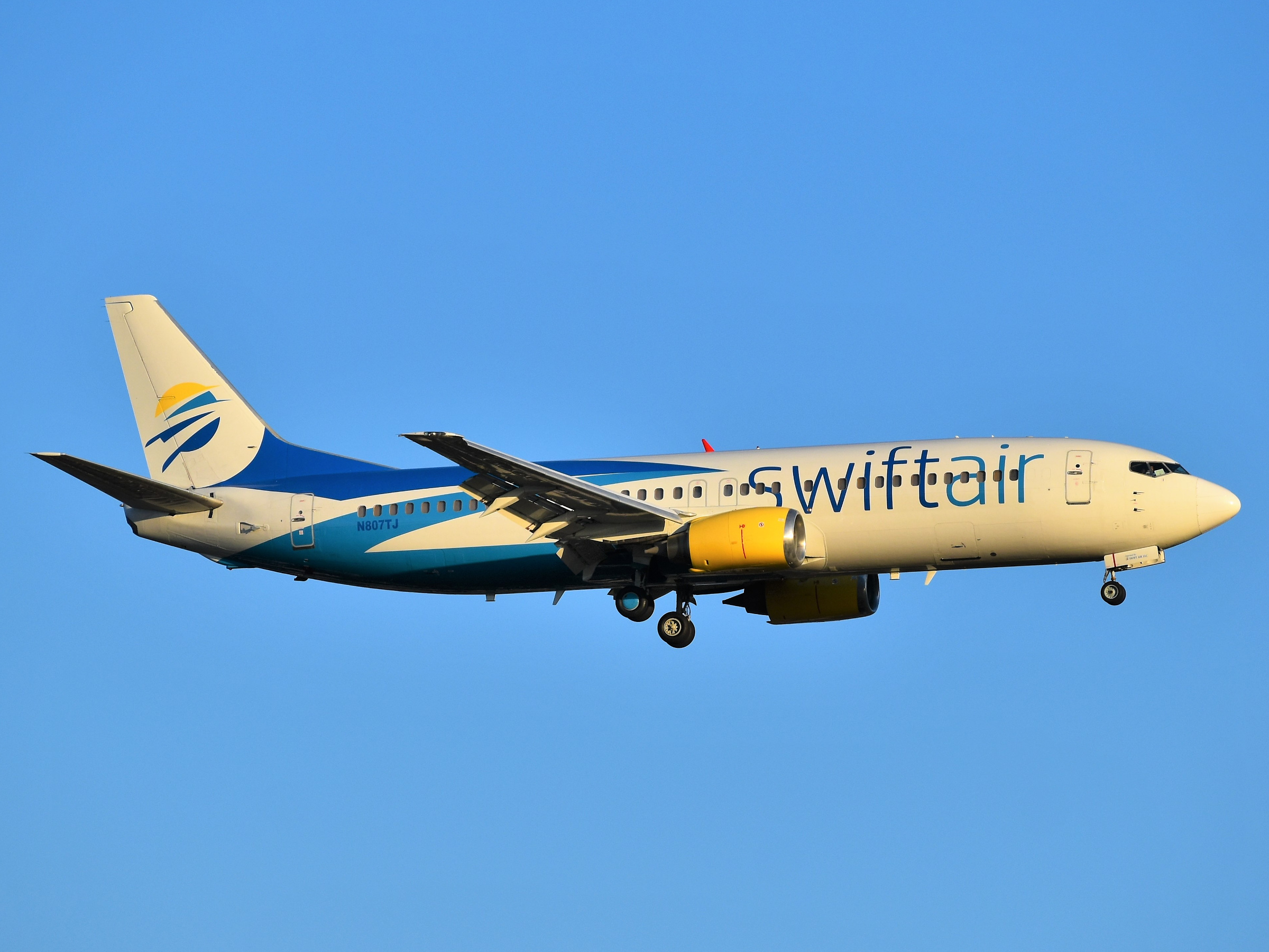 A Swift Air Boeing 737-400 Classic is on final approach to JFK Airport.